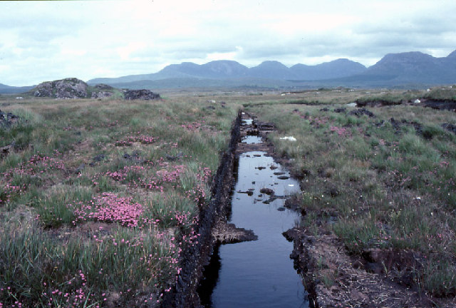 Turbary cutting (for removing peat) The heather is Mackay's heath (Erica mackaiana) which has a restricted distribution in Connemara, with the Twelve Bens in the distance.